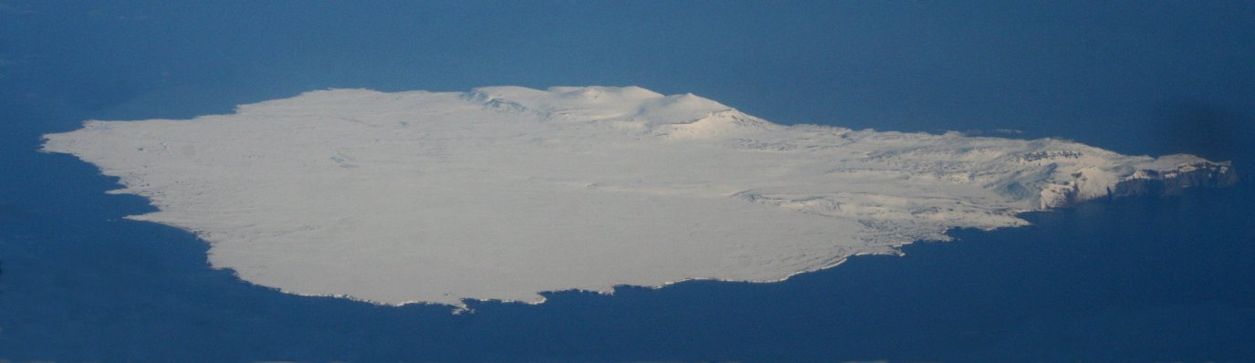 Aerial picture of Bjørnøya in May 2008 from Flyover from Longyearbyen to Tromsø